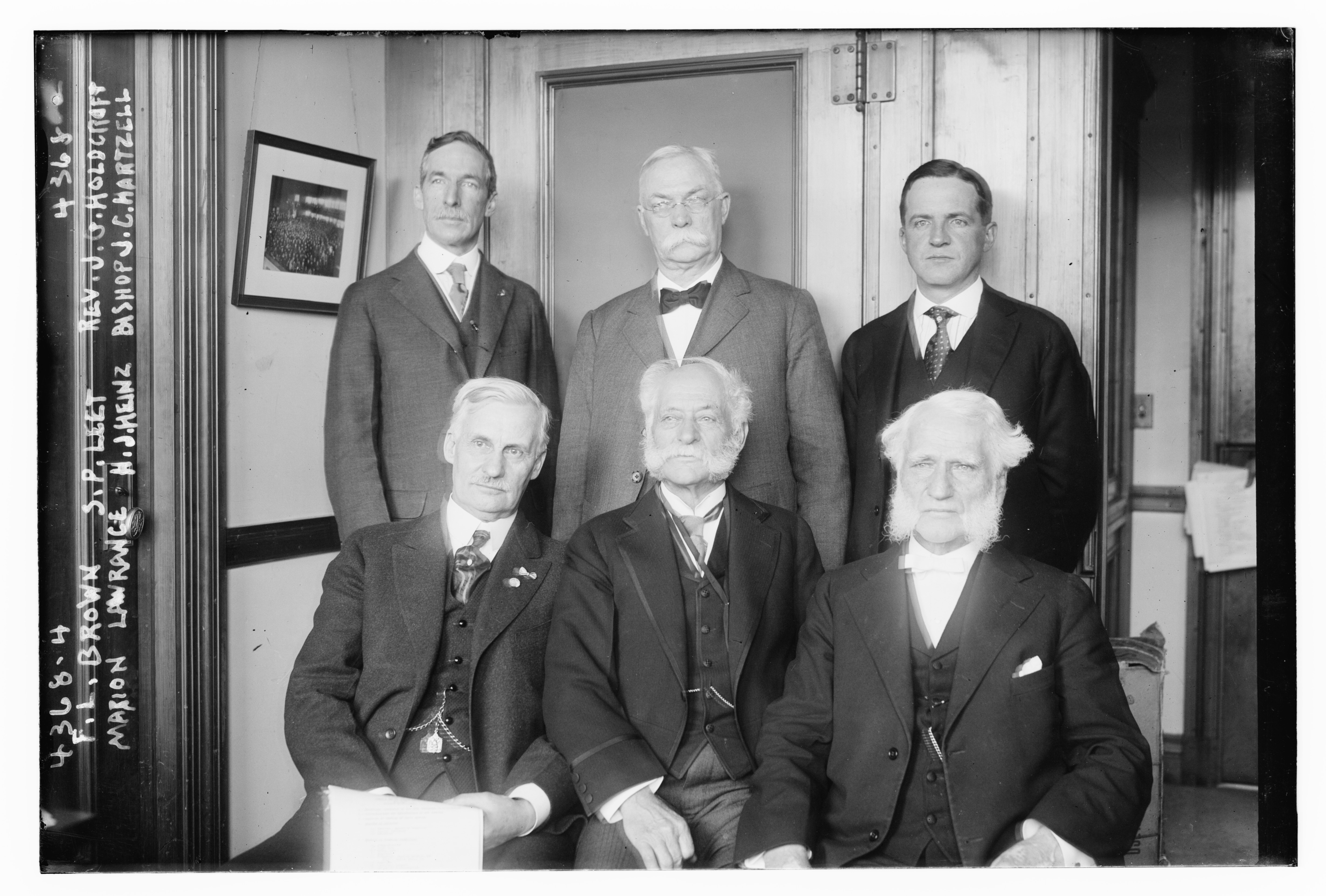 Frank L. Brown; Seth Penn Leet (1851-?); Reverend James Gordon Holdcroft (1878-?) of Philadelphia, the president of The Associated Missions of the ICCC, Marion Lawrence (?-1924); Henry John Heinz (1844-1919); and Bishop Joseph Crane Hartzell (1842–1929) in 1917